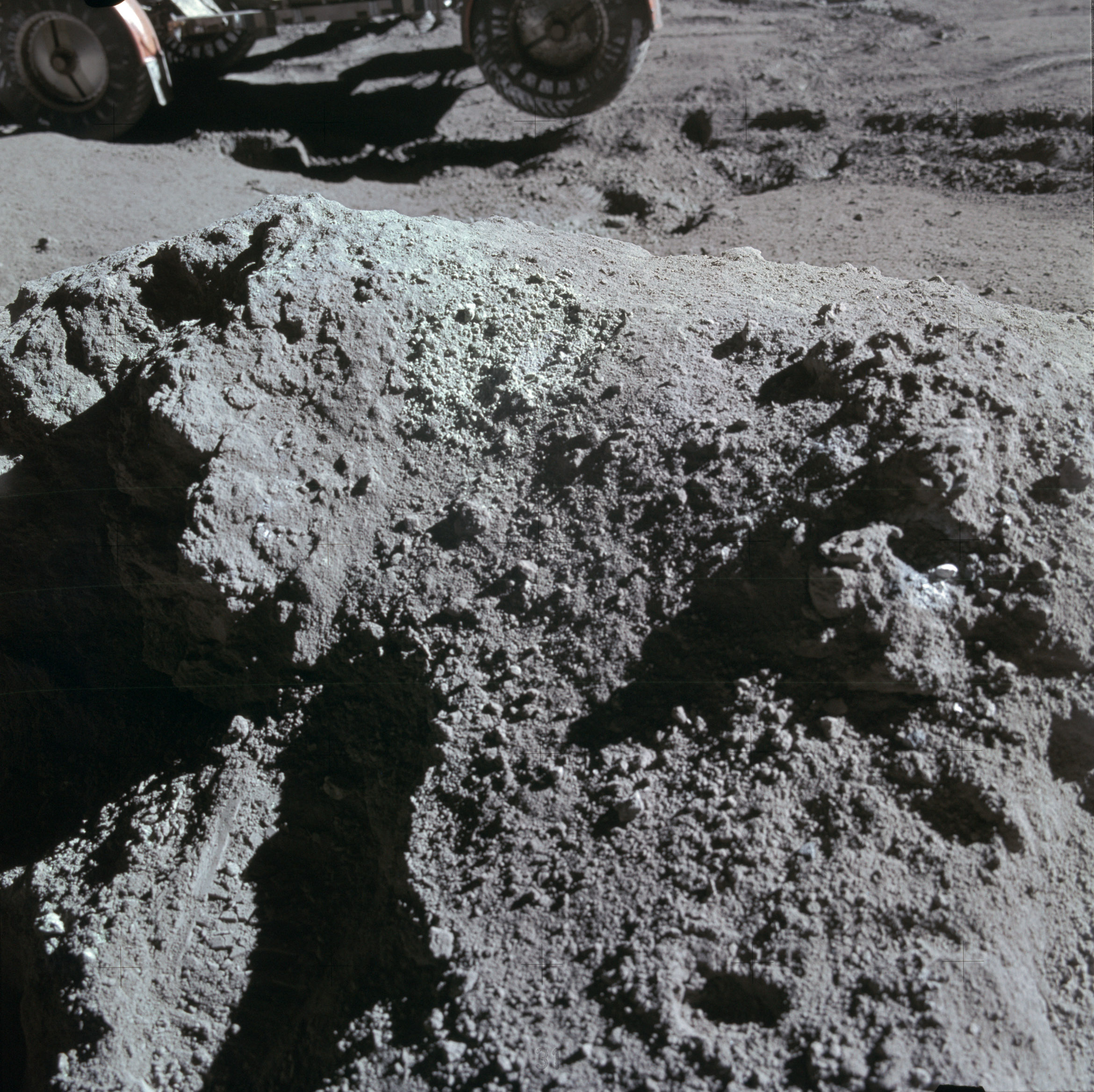 The Green Boulder at Station 6a on lunar surface.